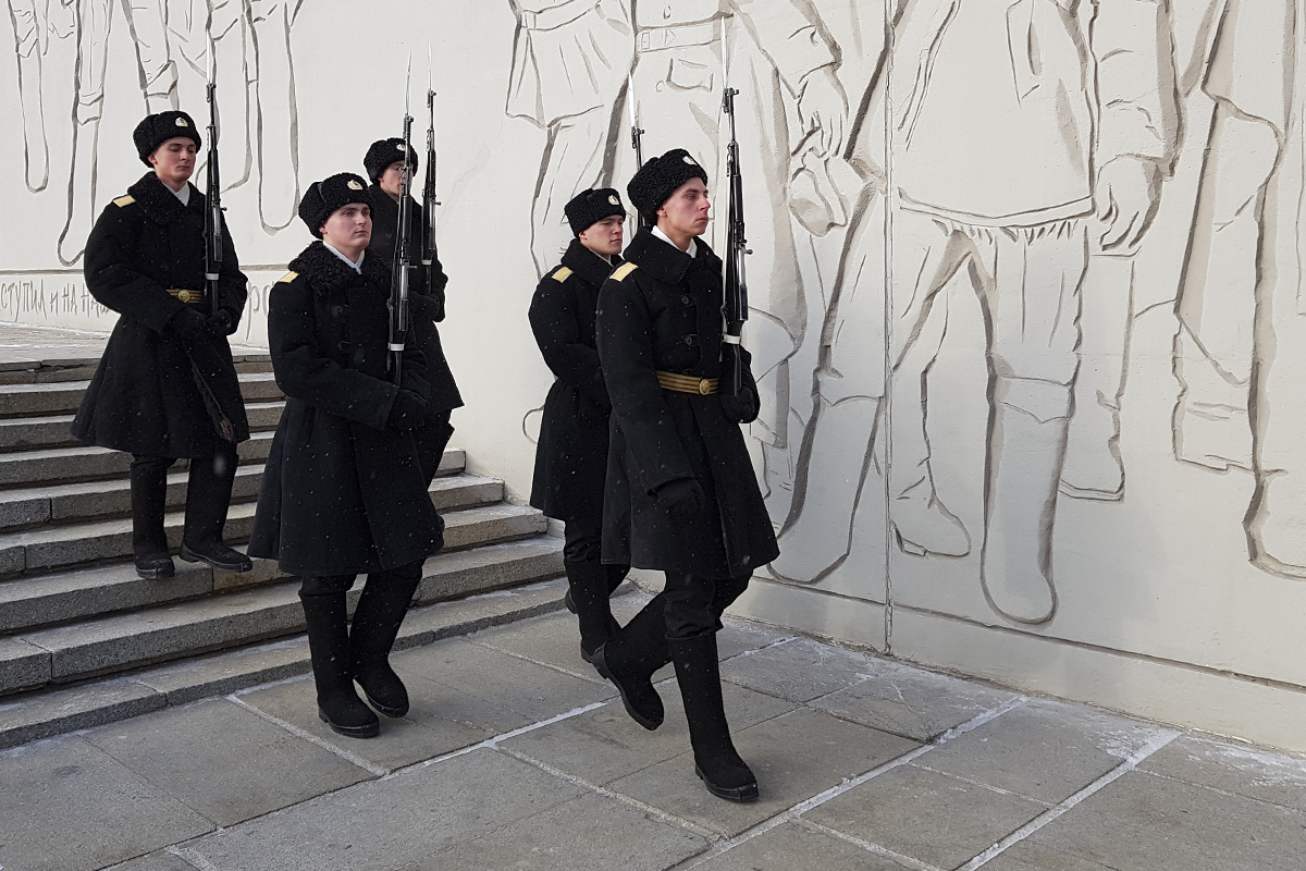 50th Anniversary of Silent Drill Platoon, Southern MD